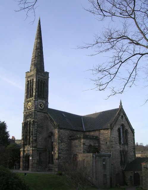 Bourock Parish Church, Barrhead.